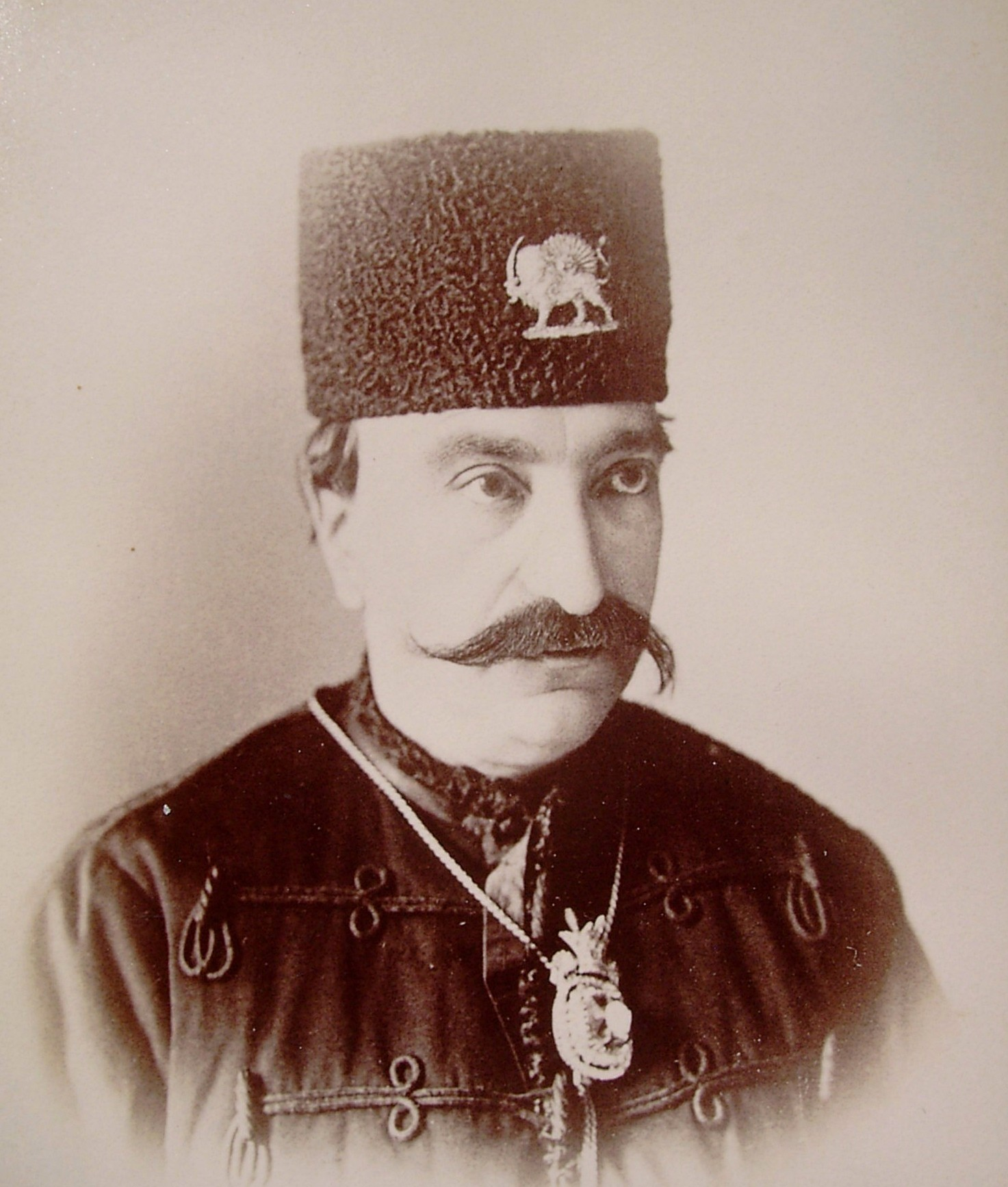 Portrait of Naser al-Din Shah Qajar (1831-1896), was the King of Iran from 17 September 1848 to 1 May 1896.